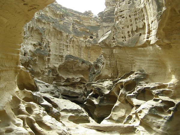 Qeshm Island, Chahkouh area